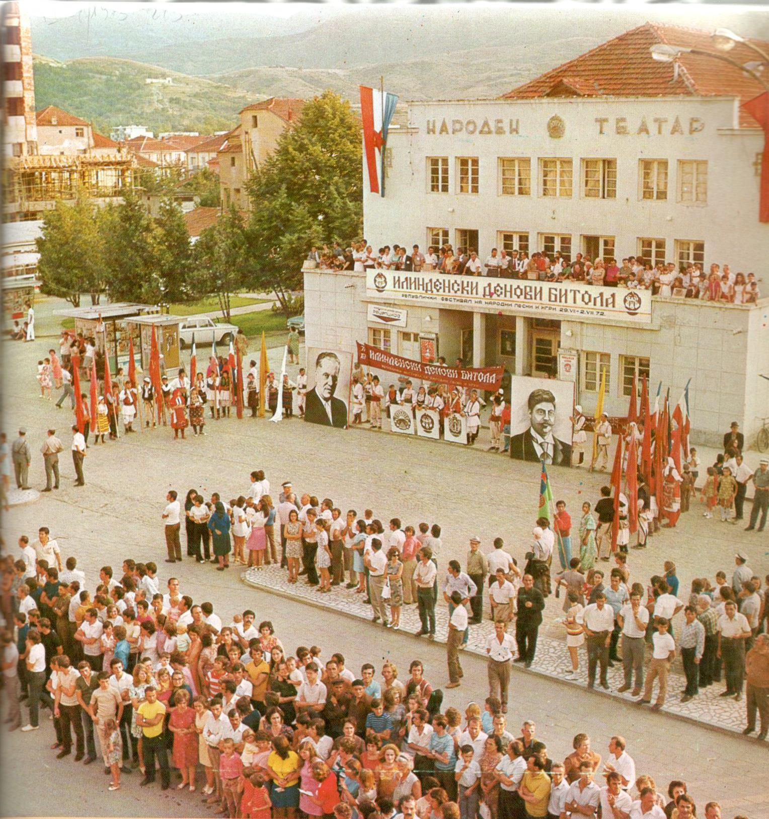 Folklore festival "Ilindenski Denovi" in Bitola, Macedonia